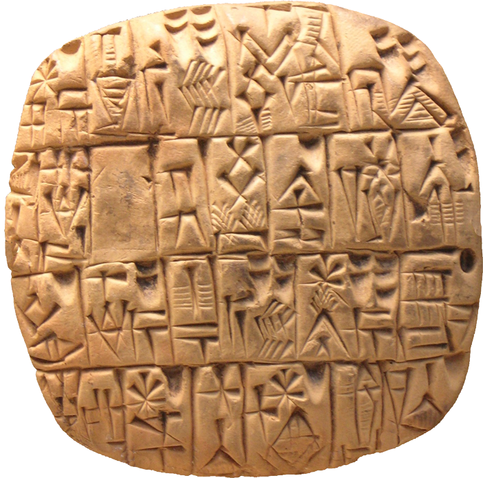 Summary account of silver for the govenor written in Sumerian Cuneiform on a clay tablet. From Shuruppak or Abu Salabikh, Iraq, circa 2,500 BCE. British Museum, London. BM 15826